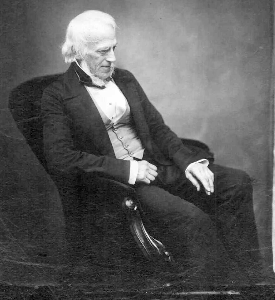 This is probably a portrait of James De Carle Sowerby (1787-1871) and certainly NOT a portrait of his father James Sowerby (1757-1822)